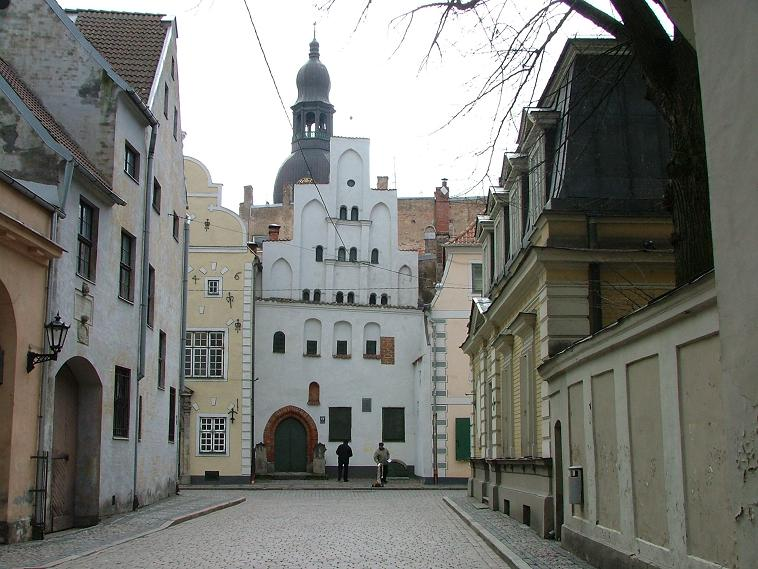 Old Town in Riga.